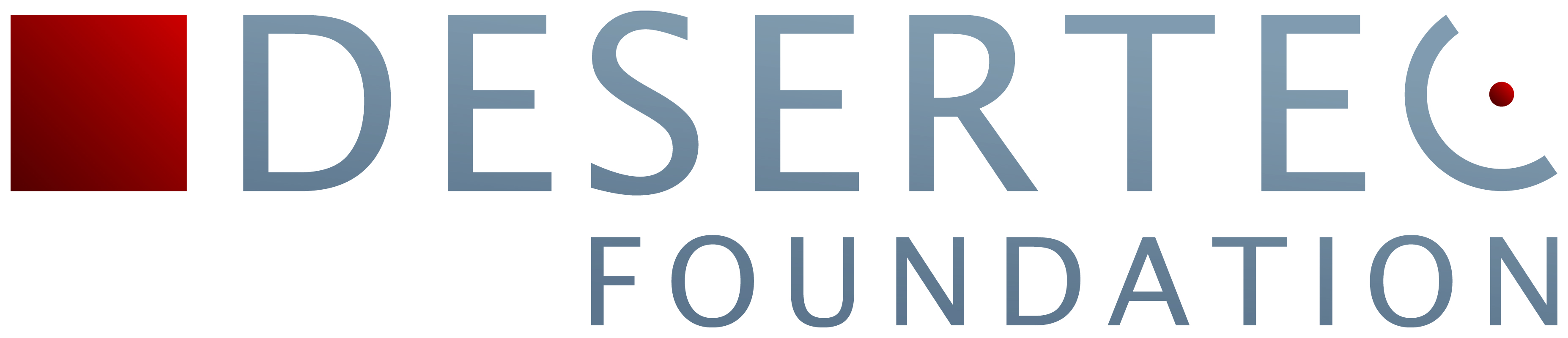 DESERTEC Foundation Logo